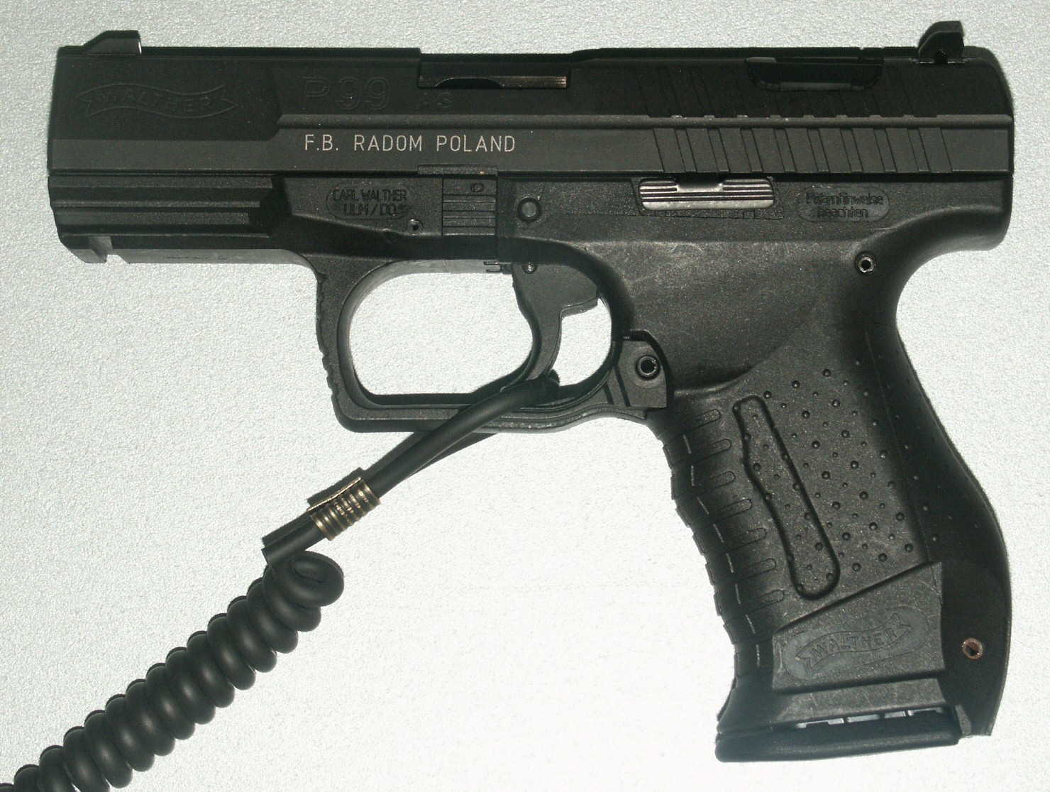 Walther P99AS pistol (manufactured by Fabryka Broni Łucznik - Radom, Poland)